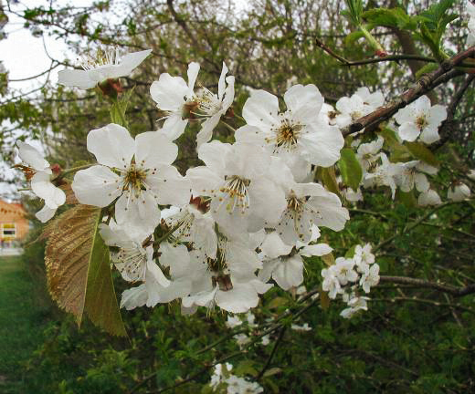 Prunus avium: Flowers and young leaves.